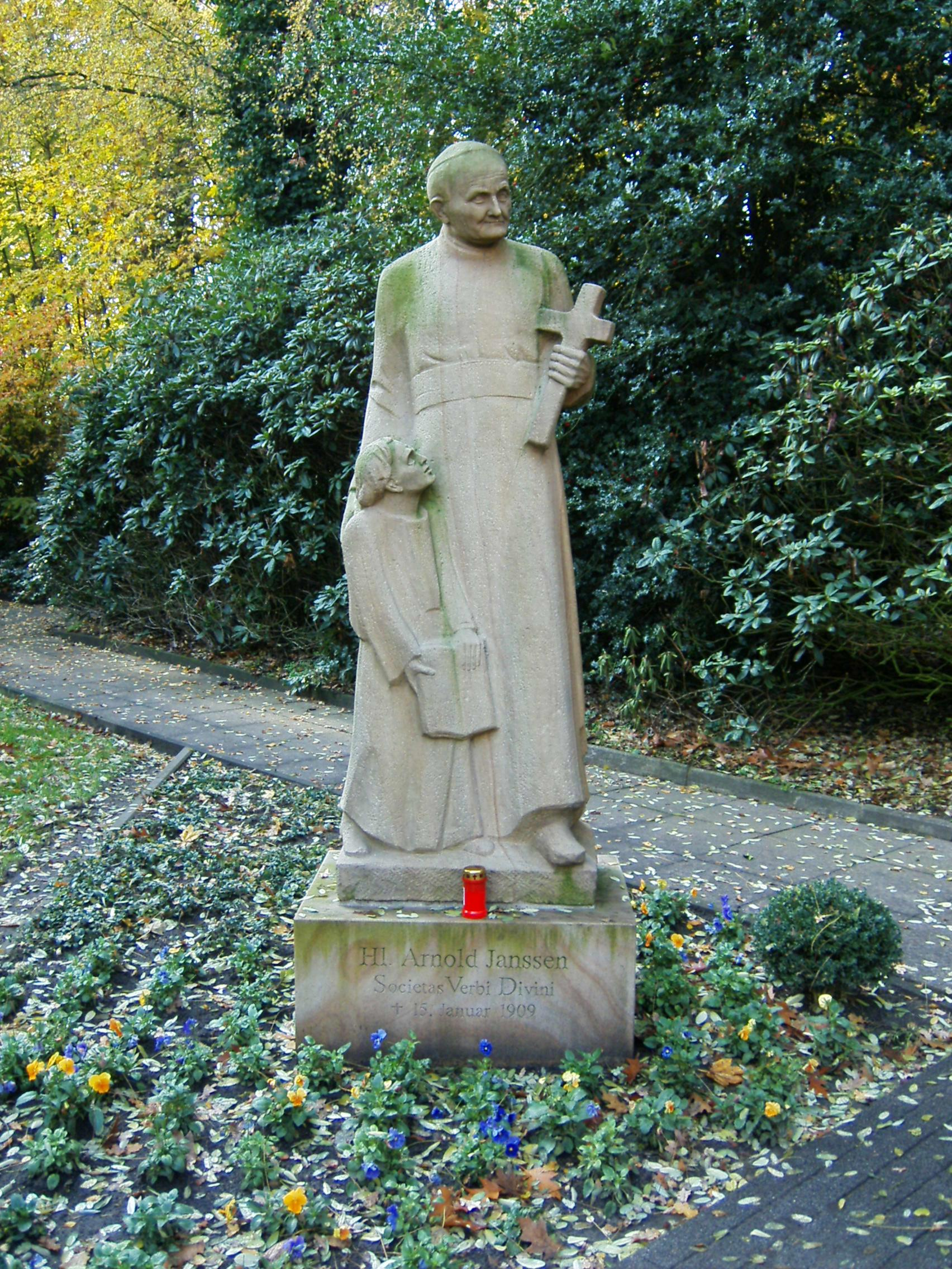 Statue of Arnold Janssen, monastery St. Arnold in district of Steinfurt, Germany, statue made by Joseph Krautwald.